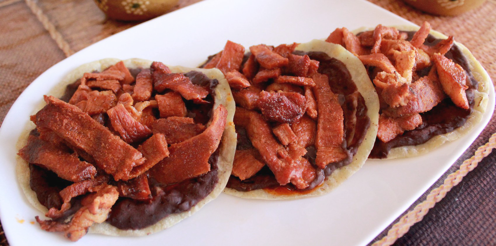 Pellizcadas de carne de chango, restaurante en Catemaco. Lugar mágico ❤️